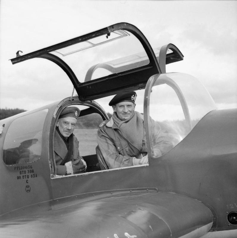 The British Army in North-west Europe 1944-45 Field Marshal Montgomery with General Sir John Burnett-Stuart, Colonel Commandant of the 1st Battalion Rifle Brigade, in the cockpit of Monty's personal Miles Messenger aircraft during a tour of the front, 8 March 1945.